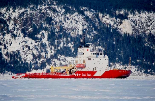 Le CCGS Terry Fox winter 2009 Saguenay River, Quebec, Canada.